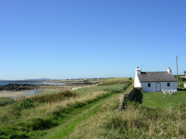 Tyn Towyn and Porth Nobla. Tyn Towyn is an 18th Century cottage by the side of the A4080 NW of Aberffraw, Anglesey. Porth Nobla is the bay to the left. Taken from SH331711 looking NW.